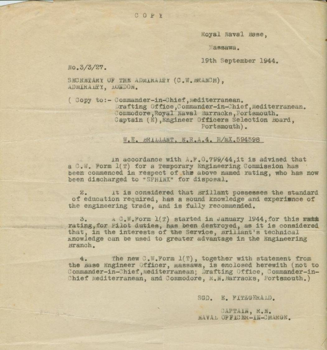 Edmond Wilhelm Brillant Commission to Sub-Lt and Pilot duties in Royal Navy.